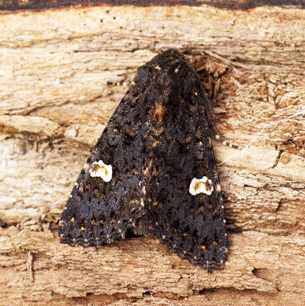 A pleasing variety Back to trapping, and with a slightly cooler and less favourable night ahead compared to the two weekend nights, I wasn't expecting much. Luckily the cloud stuck around, and so did the moths and again not a huge amount, but a nice array of new species for the year making it another 10 to add to the year list. The majority of the catch was made up of Mottled Rustic (15) and Heart & Dart (34). A nice splash of colour with Barred Yellow and Small Emerald featuring for the first time this year. Privet Hawk-moth made up the size of the catch quite literally! Catch Report - 15/06/14 - Back Garden Stevenage - 1x 125w MV Robinson Trap Macro Moths 1x Shaded Pug [NFY] 1x Small Emerald [NFY] 1x Buff Arches [NFY] 1x Barred Yellow [NFY] 2x Dark Arches [NFY] 1x Privet Hawk-moth [NFY] 1x Dot Moth [NFY] 2x Green Pug 1x Freyer's Pug 1x Large Yellow Underwing 1x Shuttle-shaped Dart 2x Common Footman 1x Flame Shoulder 2x Rustic Shoulder-knot 15x Mottled Rustic 34x Heart & Dart 1x Grey Pug 1x Light Emerald 2x Brimstone Moth 4x Marbled Minor 1x Tawny Marbled Minor 1x Ingrailed Clay 1x Green Silver-lines 1x Mottled Pug 3x Garden Carpet 6x Brown Rustic 4x Vine's Rustic 1x Common Swift 3x Mottled Beauty 3x Bright-line Brown-eye 10x Uncertain 1x Pale Mottled Willow 1x Treble Lines 2x Large Nutmeg Micro Moths 1x Agapeta hamana [NFY] 1x Aphelia paleana [NFY] 1x Bryotropha terrella [NFY] 3x Tortrix viridana 2x Dipleurina lacustrata 1x Epiphyas postvittana 2x Celypha lacunana 2x Udea olivalis 2x Aphomia sociella 1x Scrobipalpa acuminatella 2x Aleimma loeflingiana 1x Chrysoteuchia culmella 1x Scoparia ambigualis